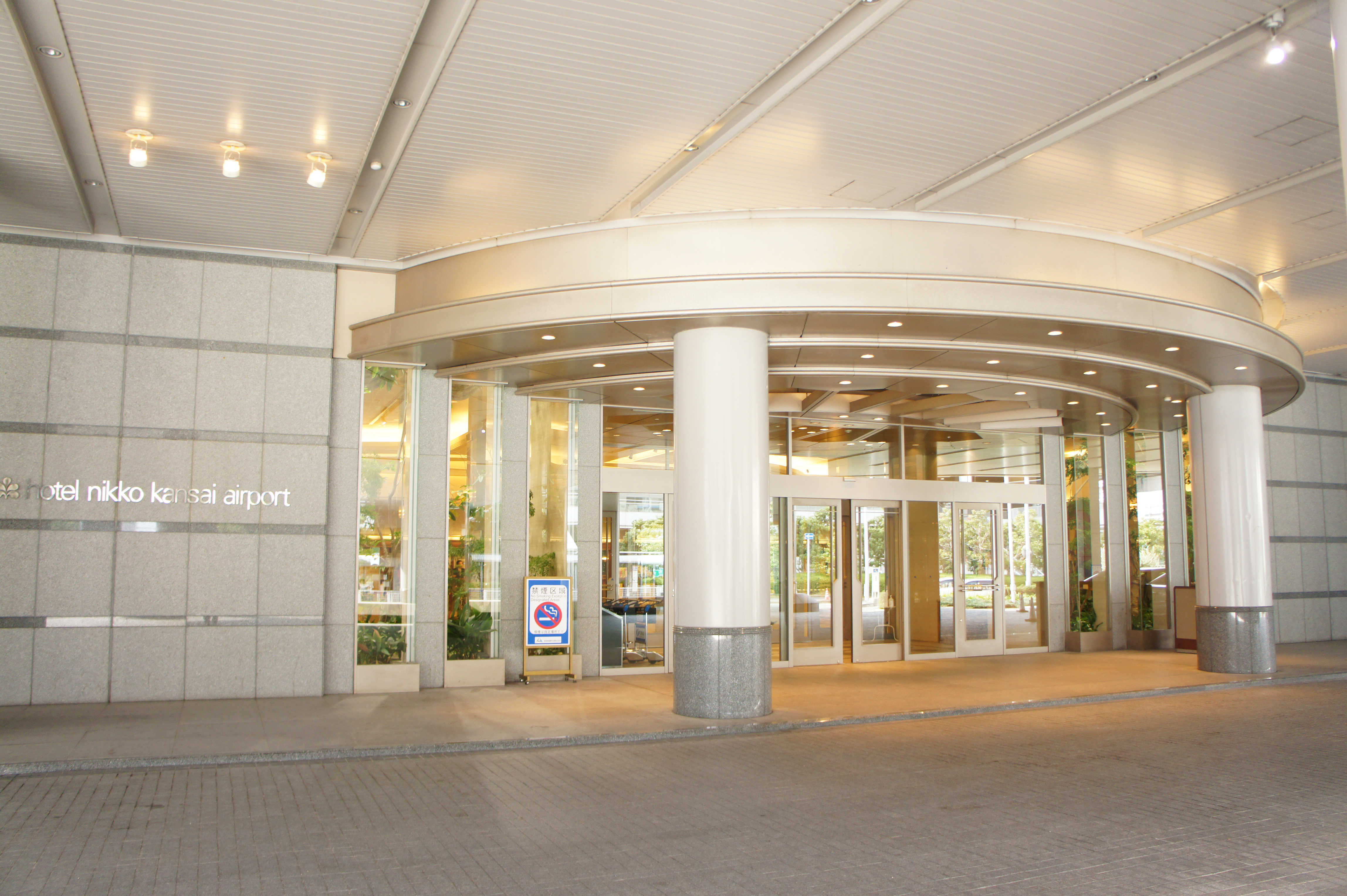 Hotel Nikko Kansai Airport Front Entrance(1F), 1 Senshukuko-kita Izumisano-City Osaka Japan.(Kansai International Airport)